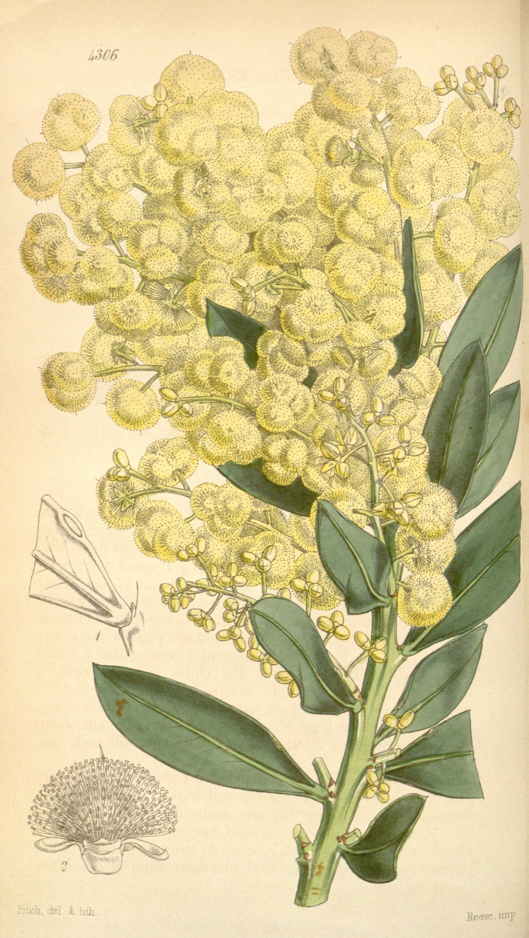 Flickr description Curtis's botanical magazine.. London ; New York [etc.] :Academic Press [etc.].